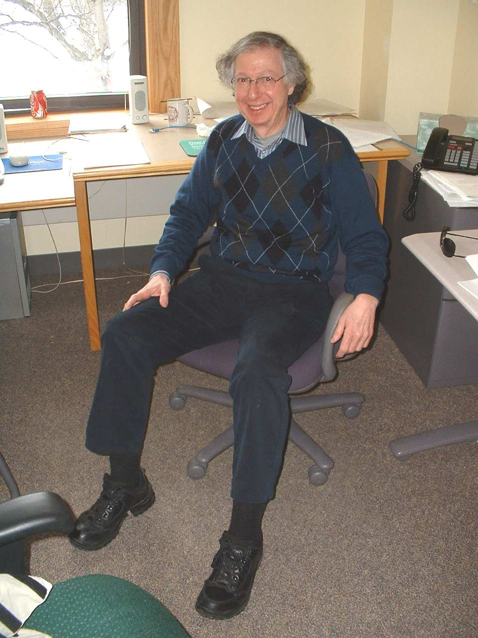 Arthur Jaffe at Harvard University